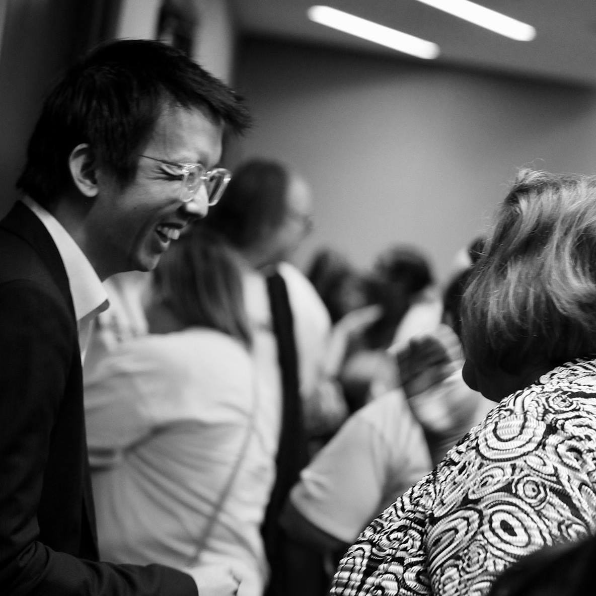 Samuel Chu greeting members May 2017